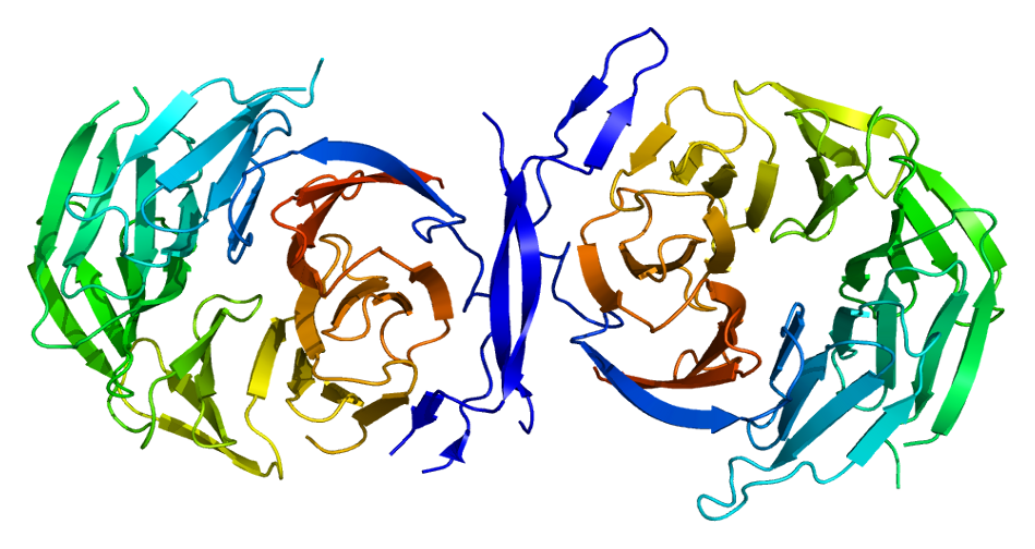 Structure of the TLE1 protein. Based on PyMOL rendering of PDB 1gxr.